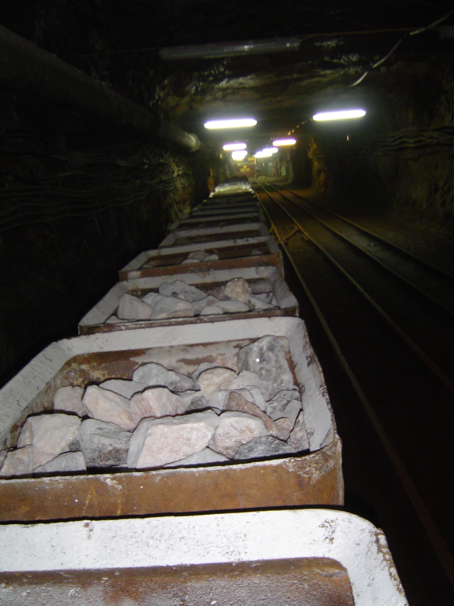 Salt transported in salt mine, Kłodawa, Poland, 600m underground